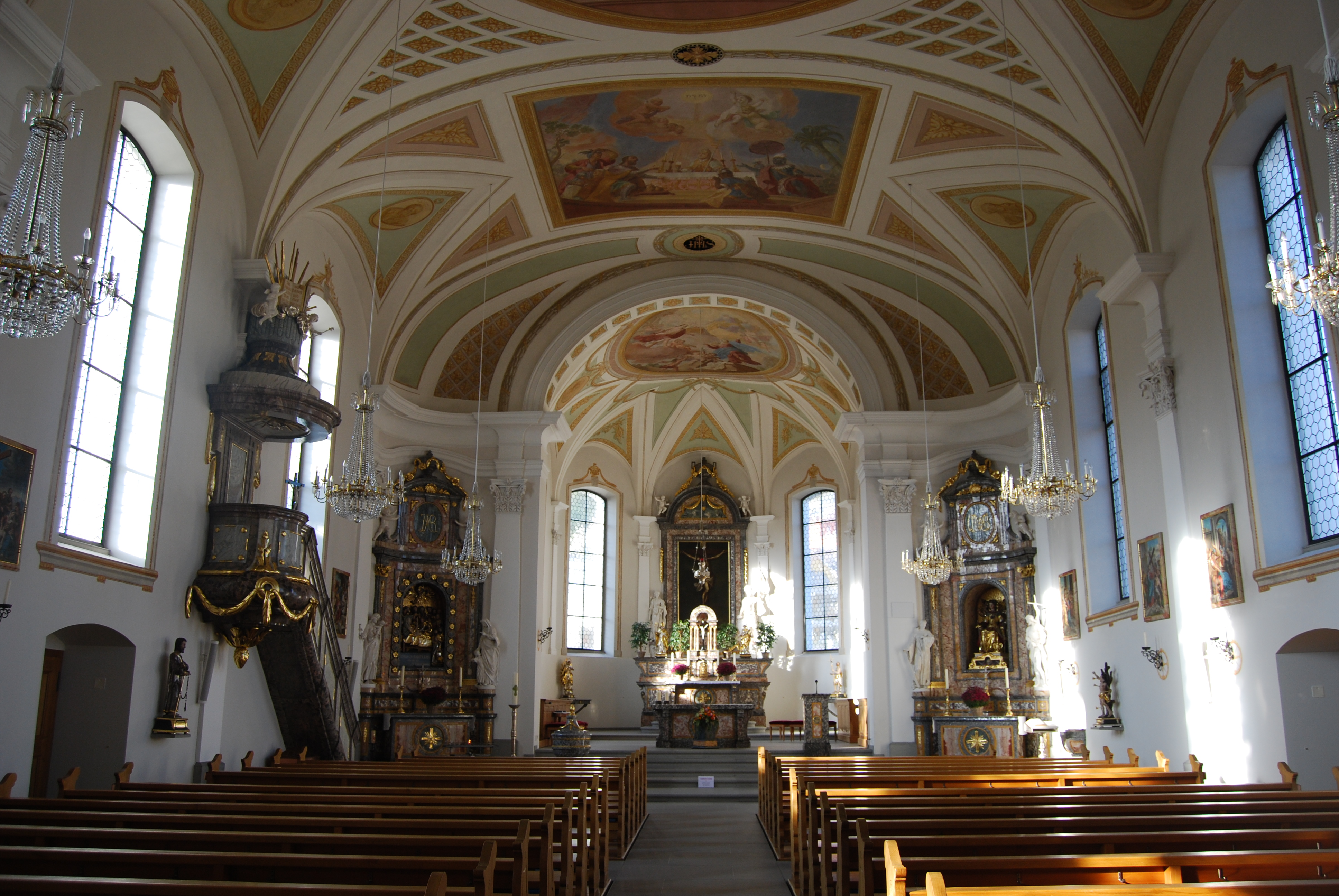 Catholic church of Wollerau, canton of Schwyz, SwitzerlandEsperanto: Katolika preĝejo de Wollerau, Kantono Ŝvico, Svislando